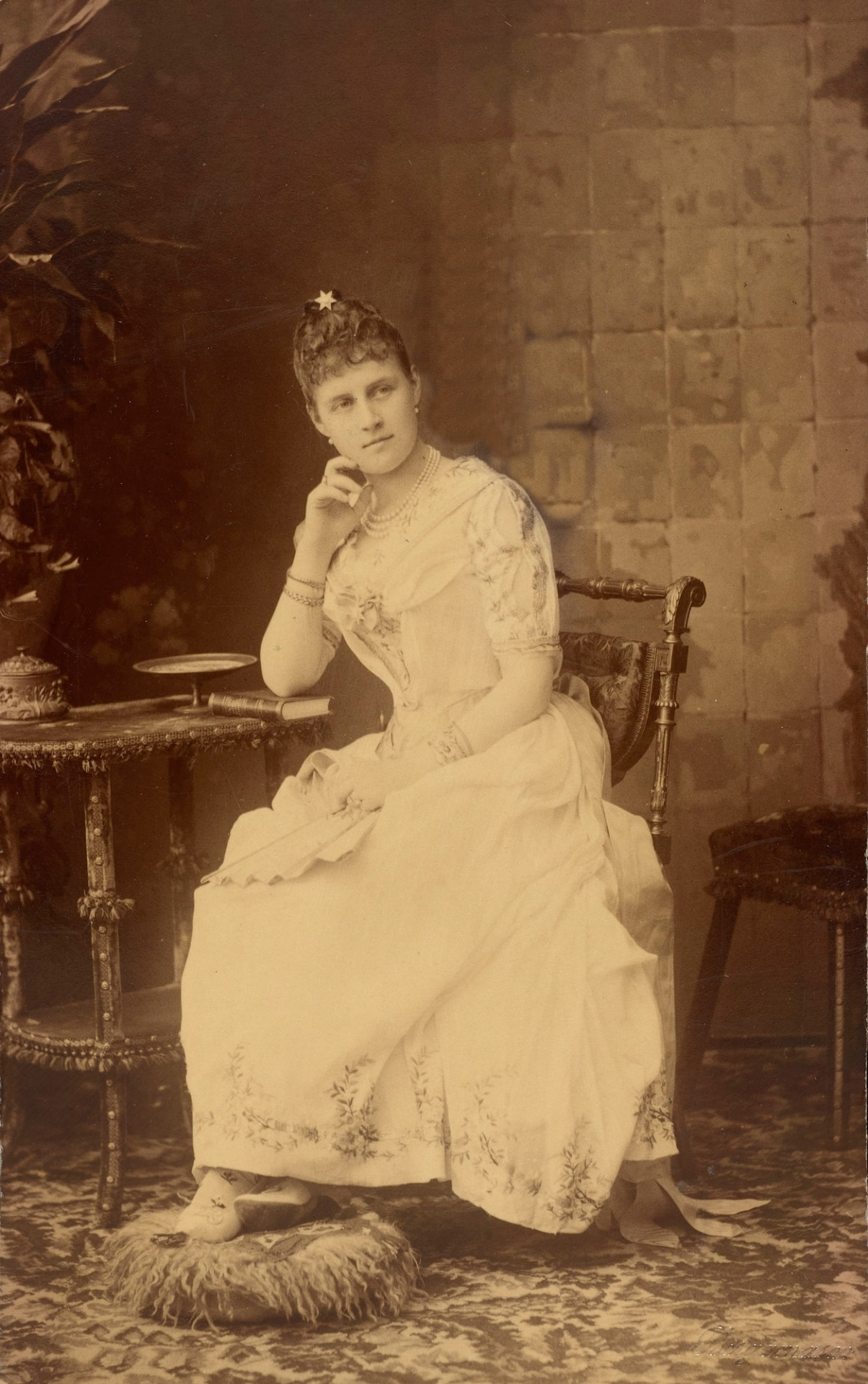 Grand Duchess Alexandra Georgievna of Russia (nee Princess of Greece and Denmark)